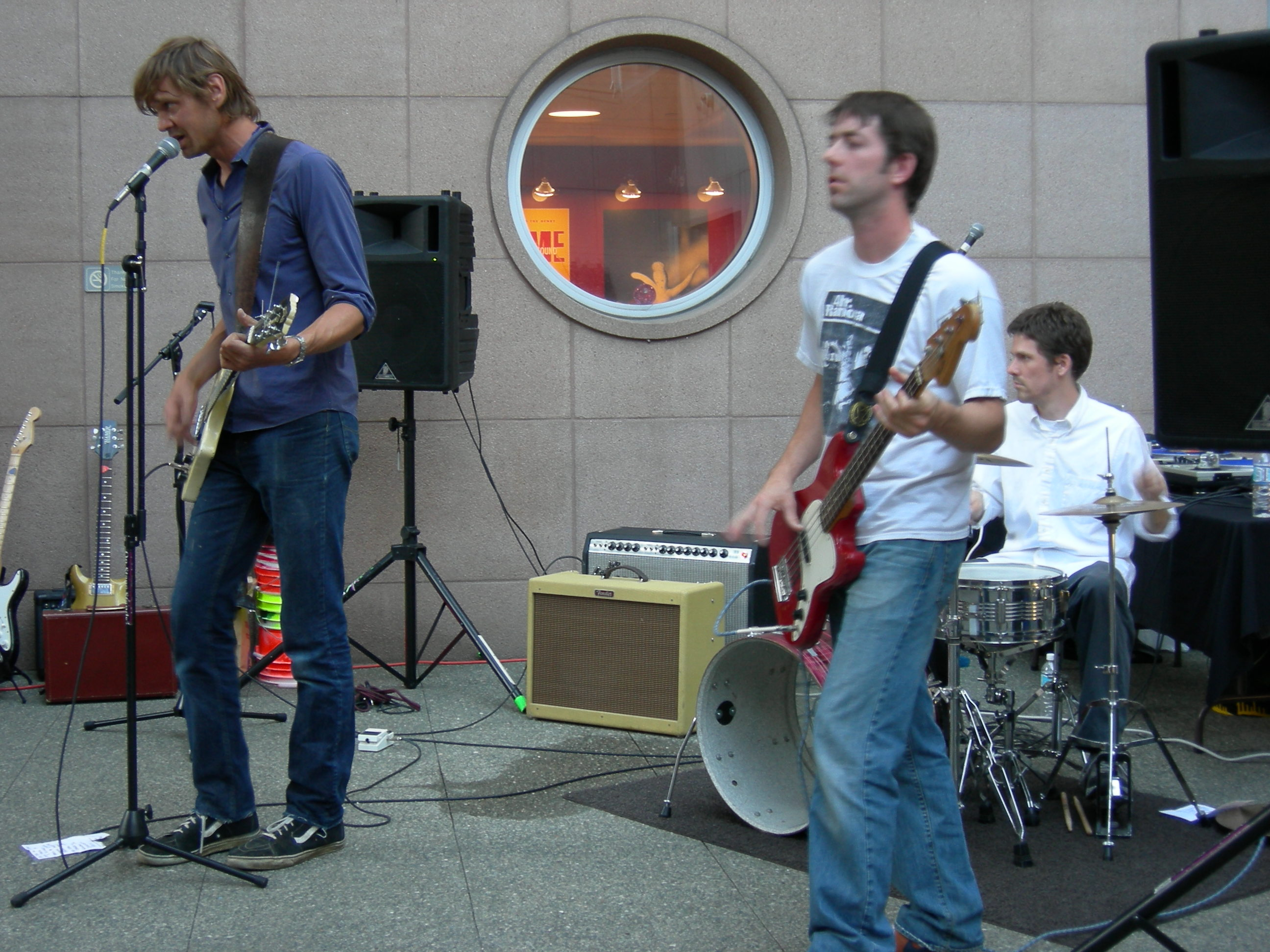 Whiting Tennis and his band perform at an art show opening at the Henry Art Gallery, University of Washington, Seattle, Washington.